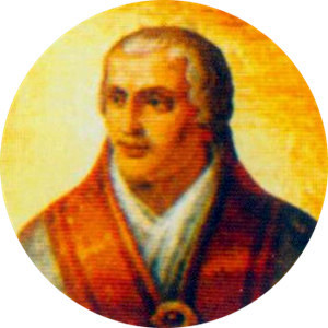 Portait of Pope Adrian V in the Basilica of Saint Paul Outside the Walls, Rome